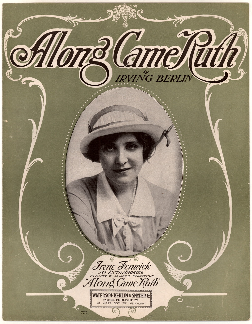 "Along Came Ruth" sheet music (page 1 of 5), cover with photo of actress singer Irene Fenwick